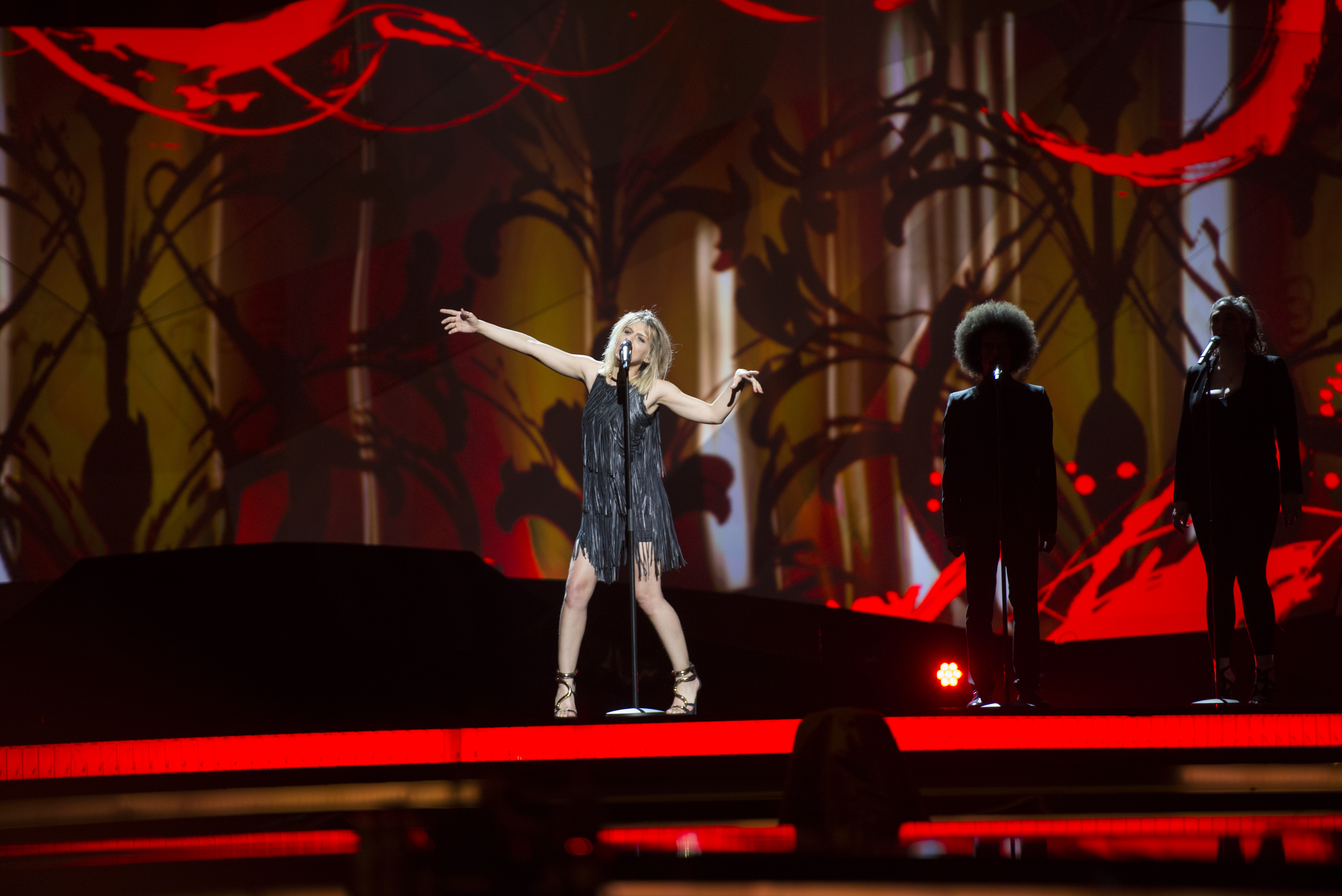 Amandine Bourgeois representing France with the song "L'enfer et moi" during the first dress rehearsal for "the Big Five" in the Eurovision Song Contest 2013 in Malmö. (Help translate this text)